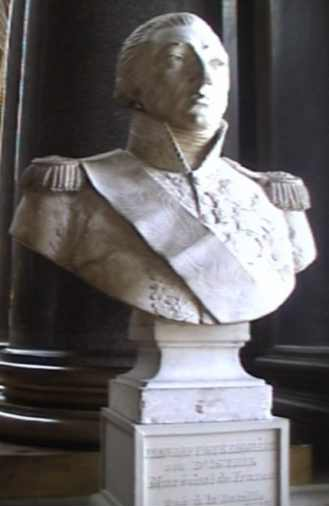 Jean-Baptiste Bessières, duke of Istries, battles gallery, Versailles castle, France